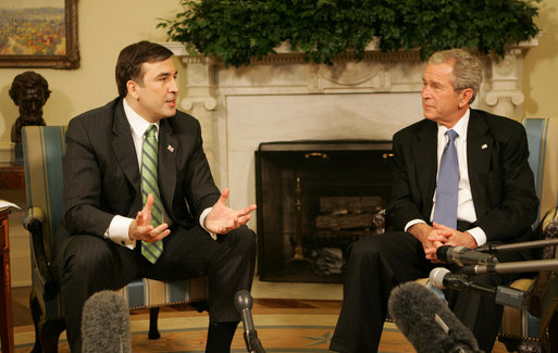 President George W. Bush listens as Mikhail Saakashvili of Georgia offers remarks as they meet on March 19, 2008, in the Oval Office of the White House.